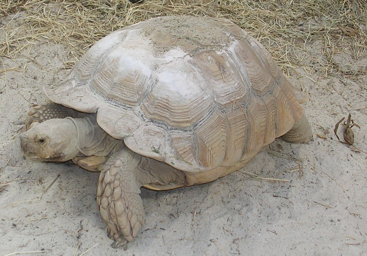 Geochelone sulcata - the African Spurred Tortoise of the Sahel sub-Saharan savanna, in the Parc Phoenix, Nice, France.